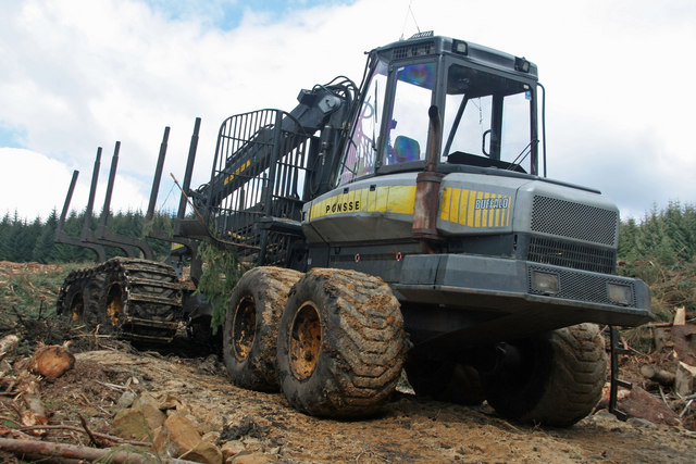 A Ponsse Buffalo forwarder parked up in the Jocks View harvesting site near Rushy Knowe in Kielder Forest.